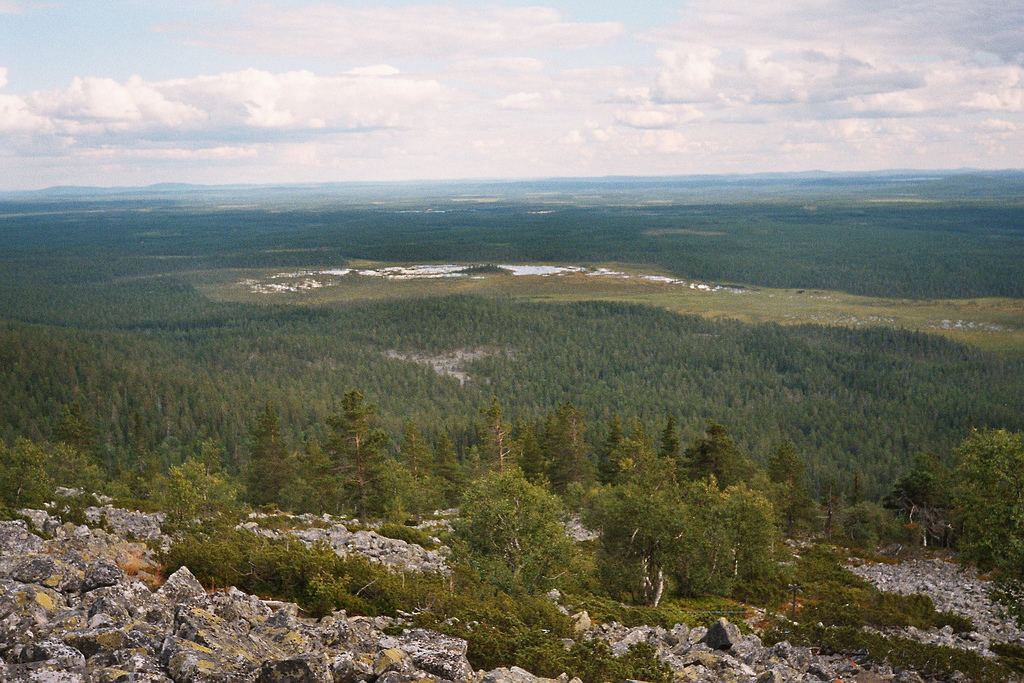 Scenery from Pyhätunturi in Pyhä-Luosto Nationalpark in Finland